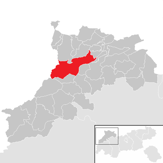 District Reutte